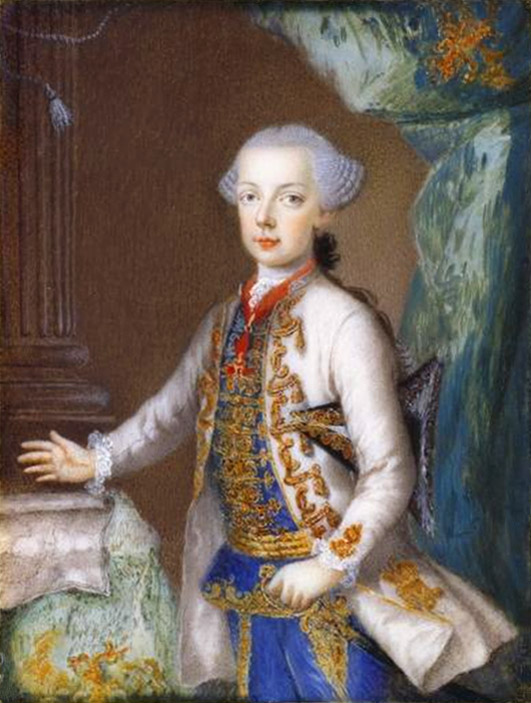 Portrait of the Archduke Charles Joseph of Austria (1745–1761)